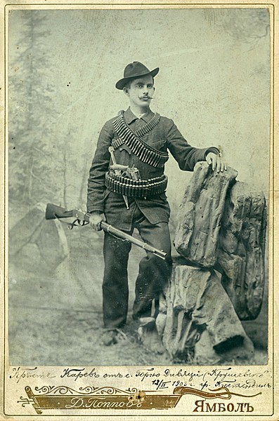 Kraste Karev from Gorno Divyatsi.